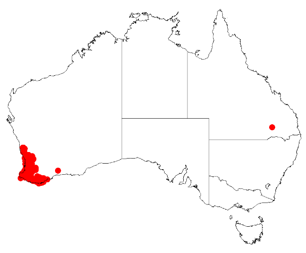 Acacia applanata Occurrence data from Australasia Virtual Herbarium downloaded from on 8 December 2018